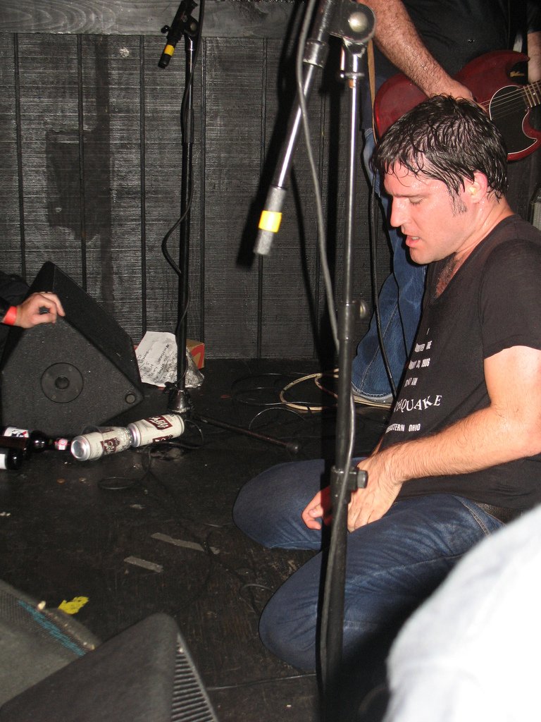 The New Bomb Turks and Spitzz at the Abbey lounge 8/19/06